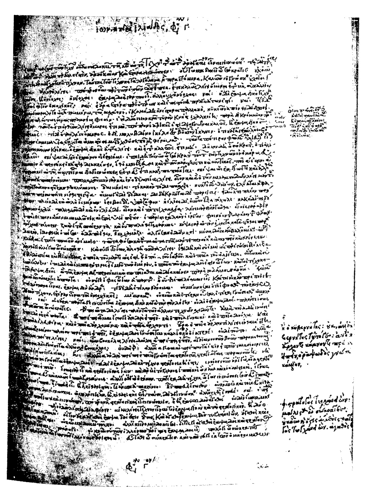 Laurentianus 85, 9 folium 202r.